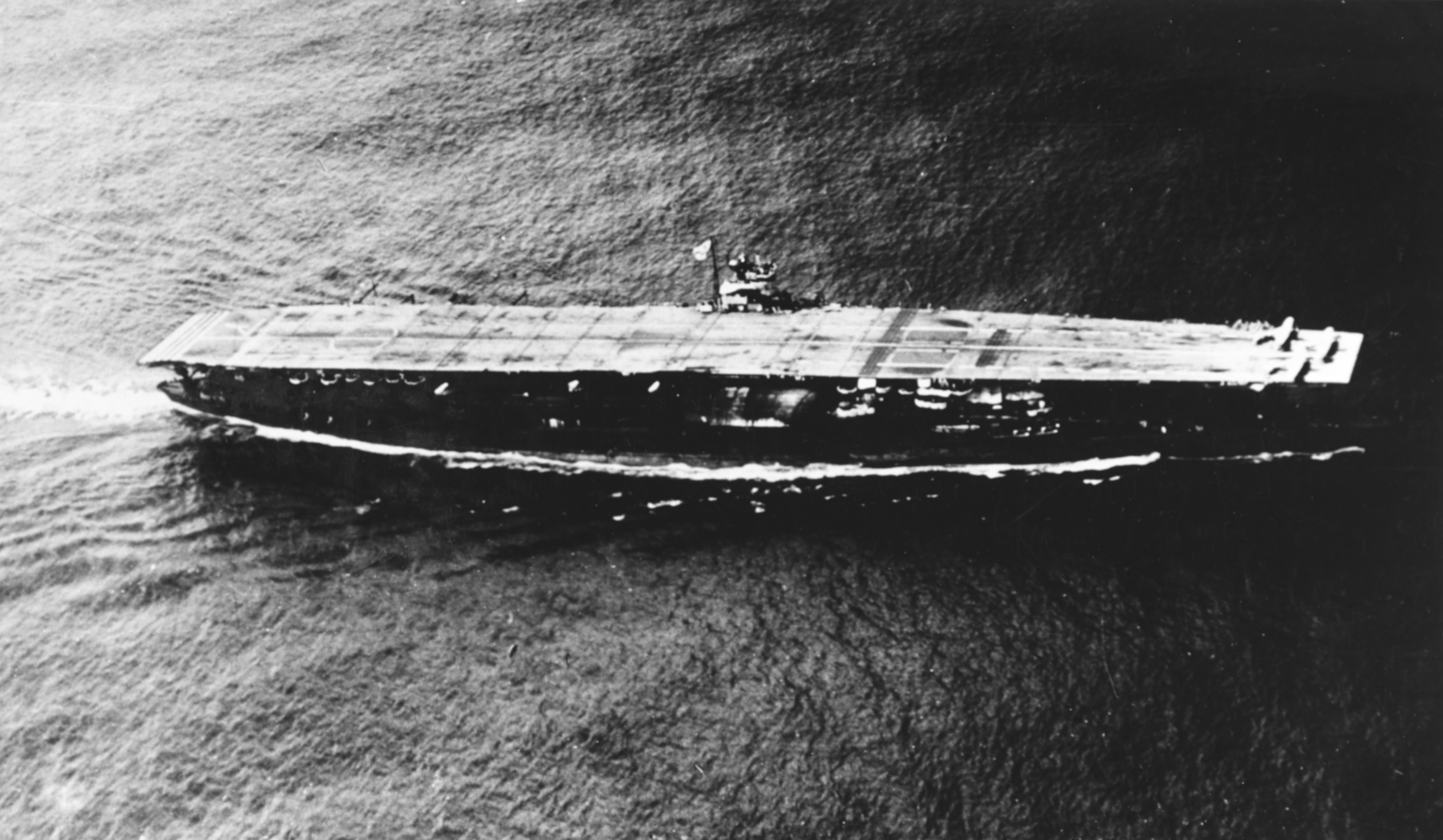 The Japanese aircraft carrier Akagi at sea during the Summer of 1941, with three Mitsubishi A6M2 Zero fighters parked forward.